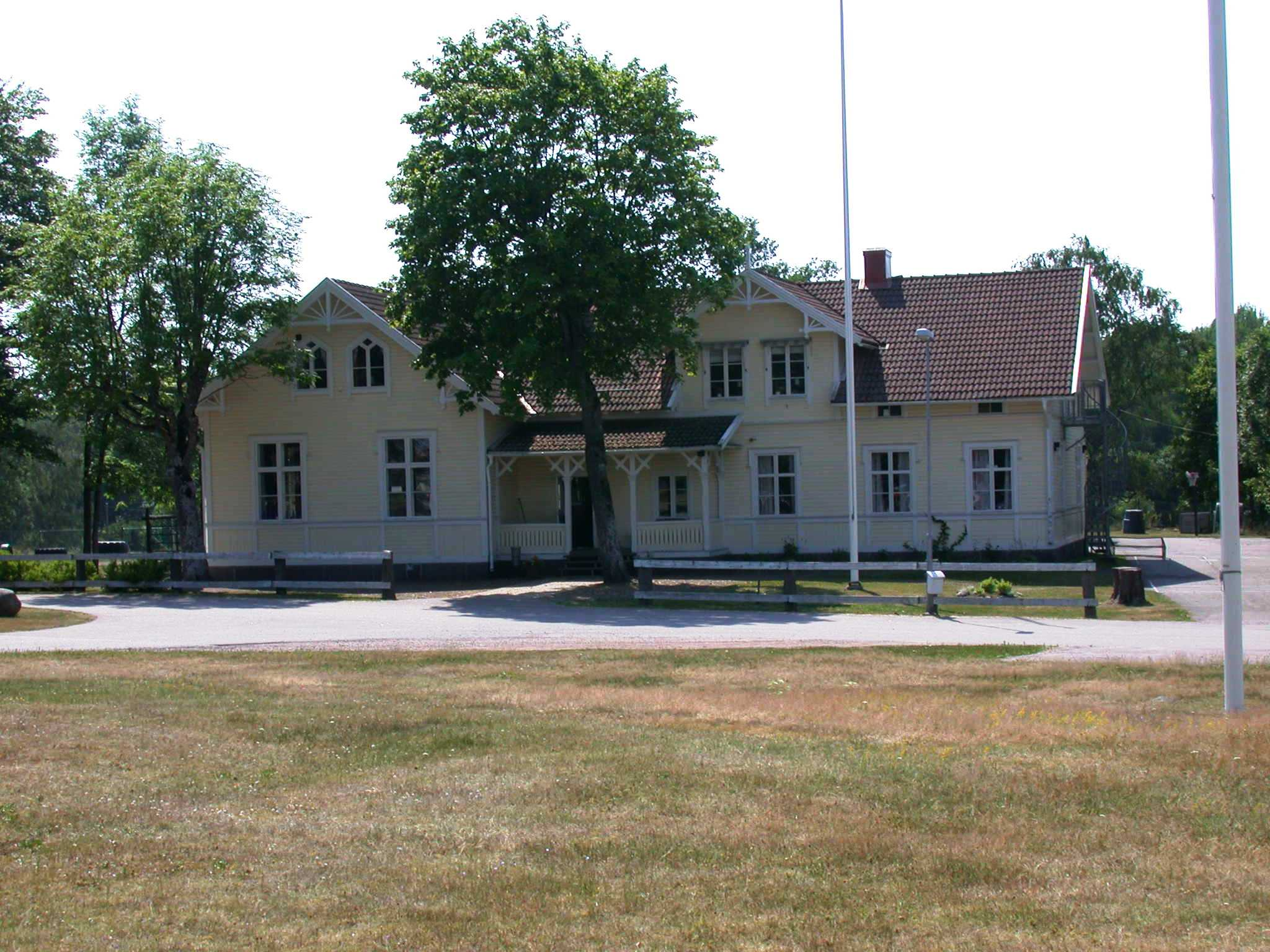 Bäckebo school, Bäckebo, Nybro, Sweden. Photo by Riggwelter, July 7, 2006.